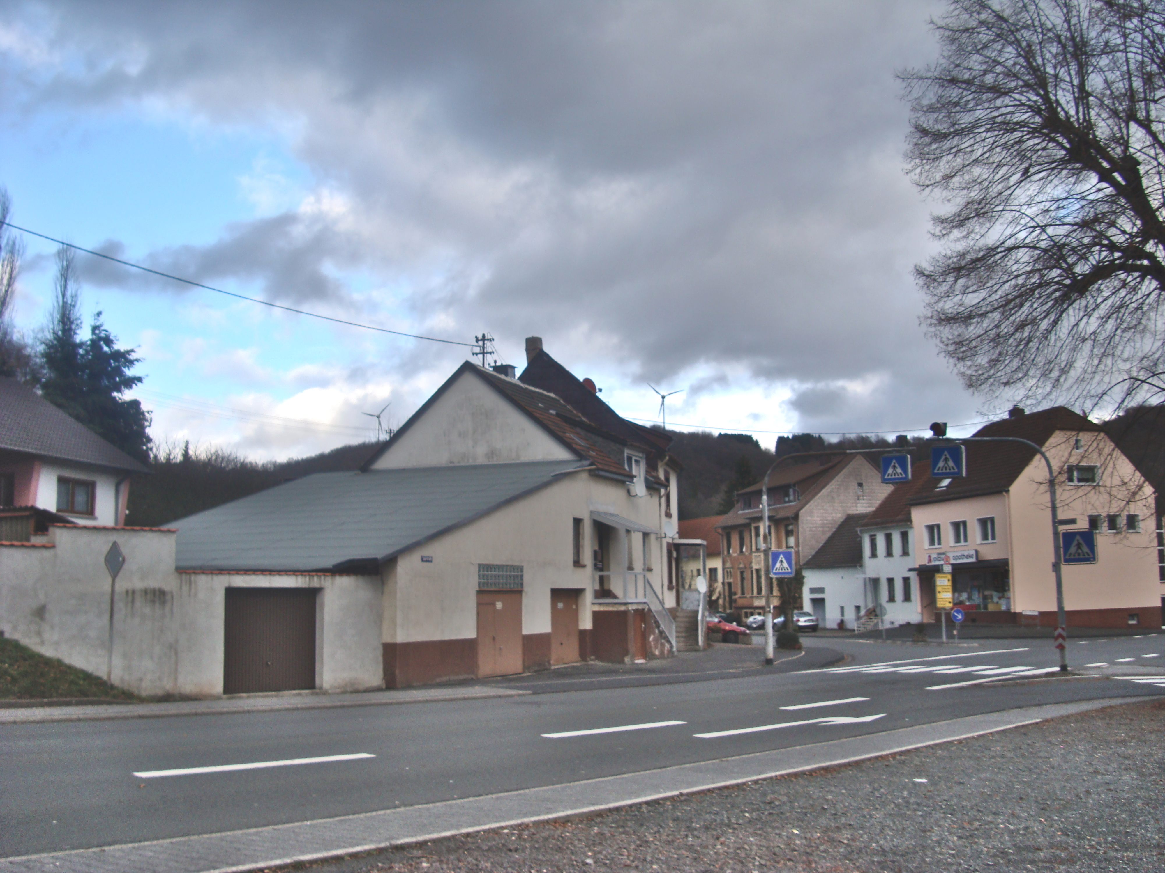 A view of part of Hoppstadten seen from the train stop